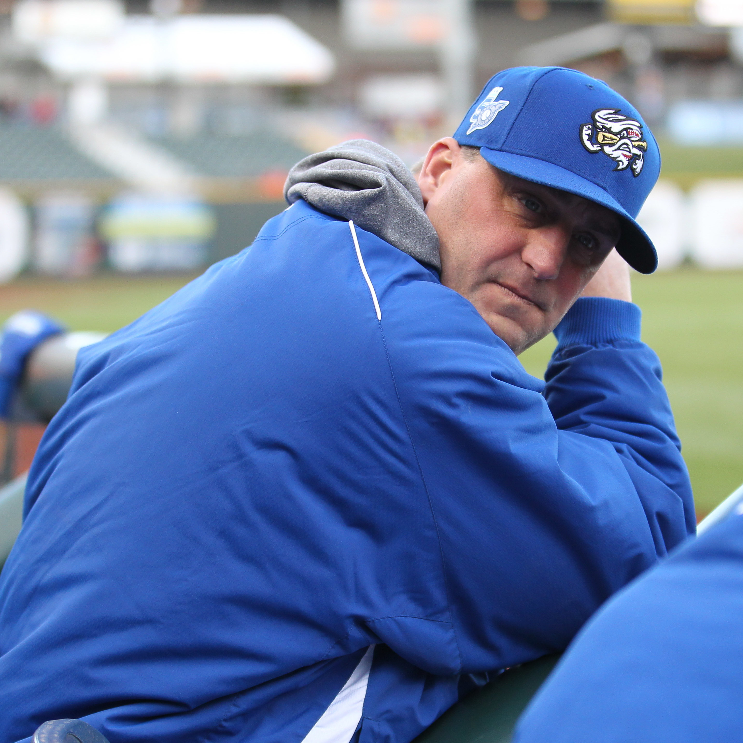 Briana Buchanan serving as hitting coach of the Omaha Storm Chasers in 2018